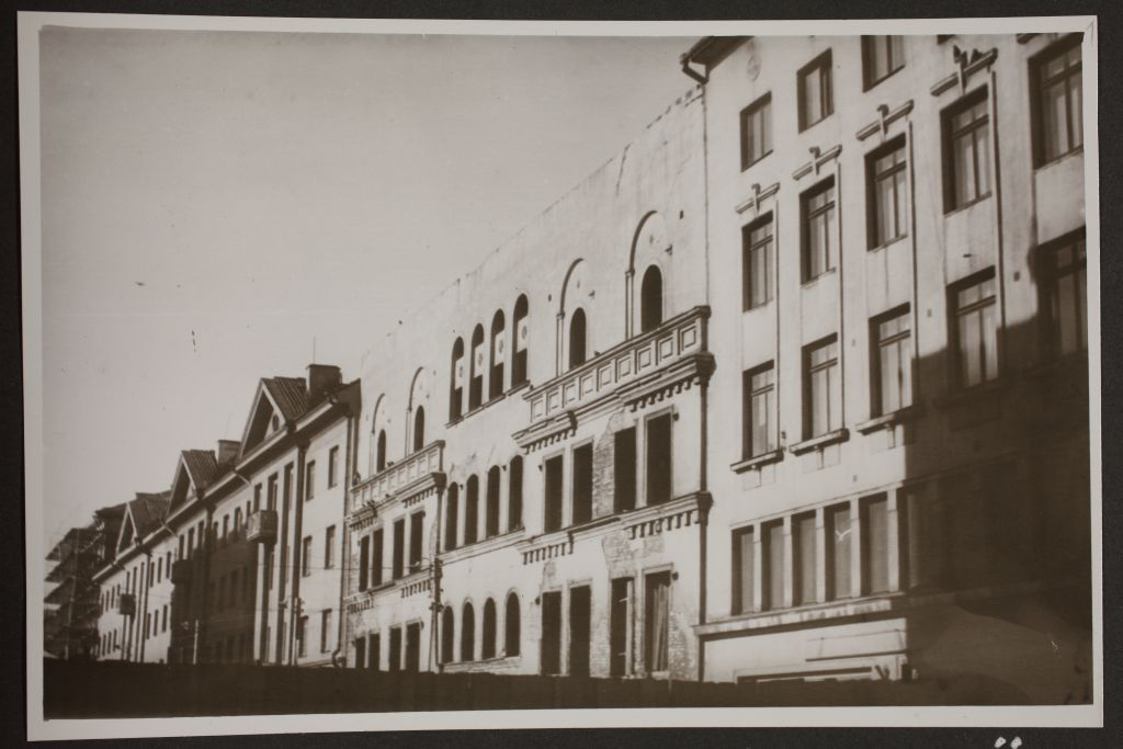 Building of State Archives in Maneeži St.